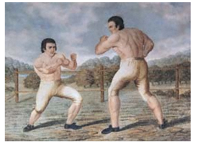 Depiction of the 62-round prizefight at Banbury, England in 1789 between Tom Johnson (Champion of England) and Isaac Perrins